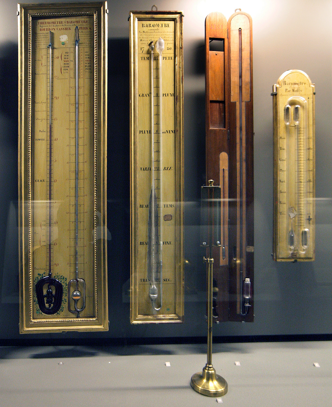 Old Barometers (icl. 1790 Huygens' barometer) from the Musée des Arts et Métiers, Paris